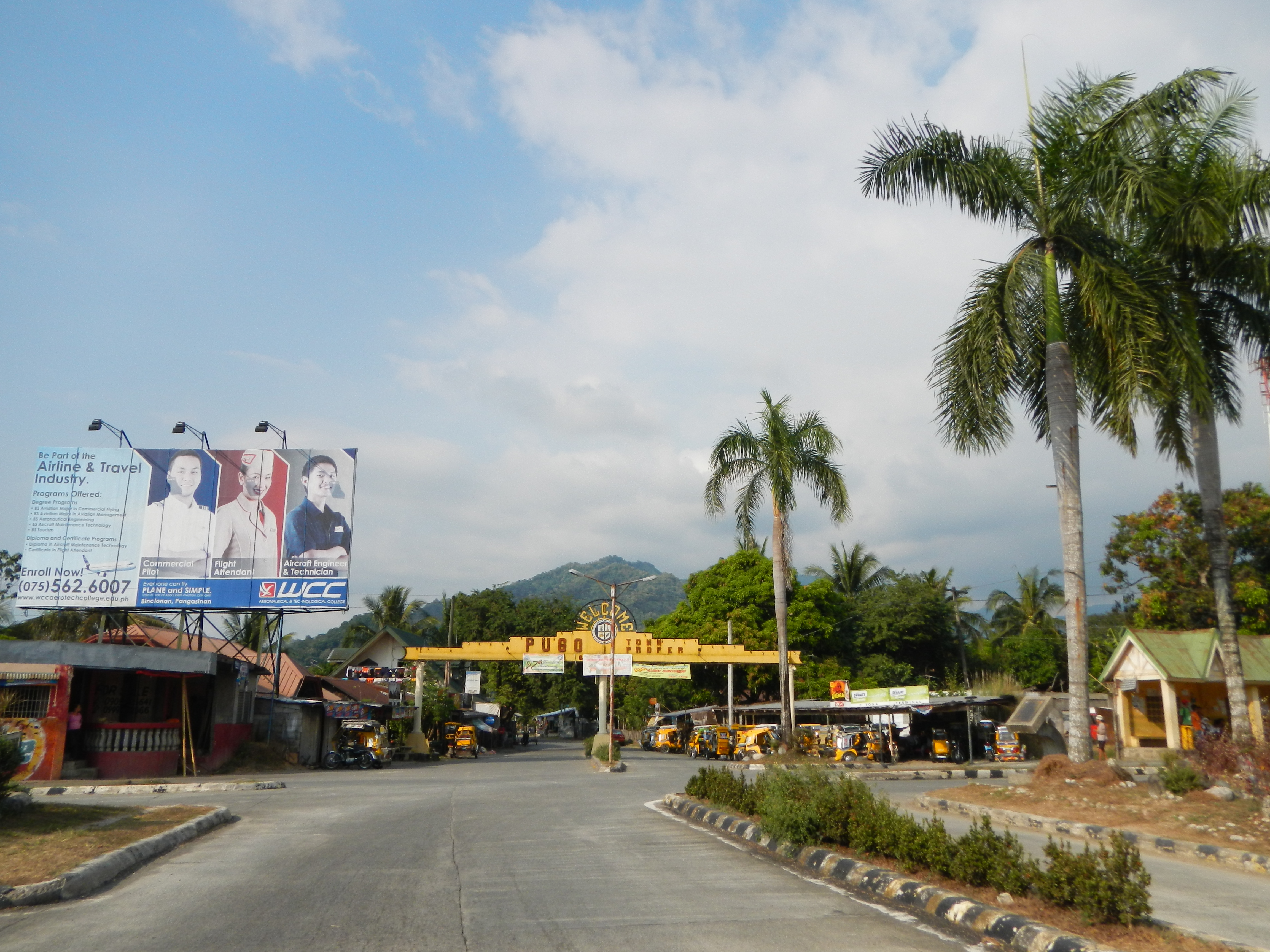 Pugo, La Union[1]